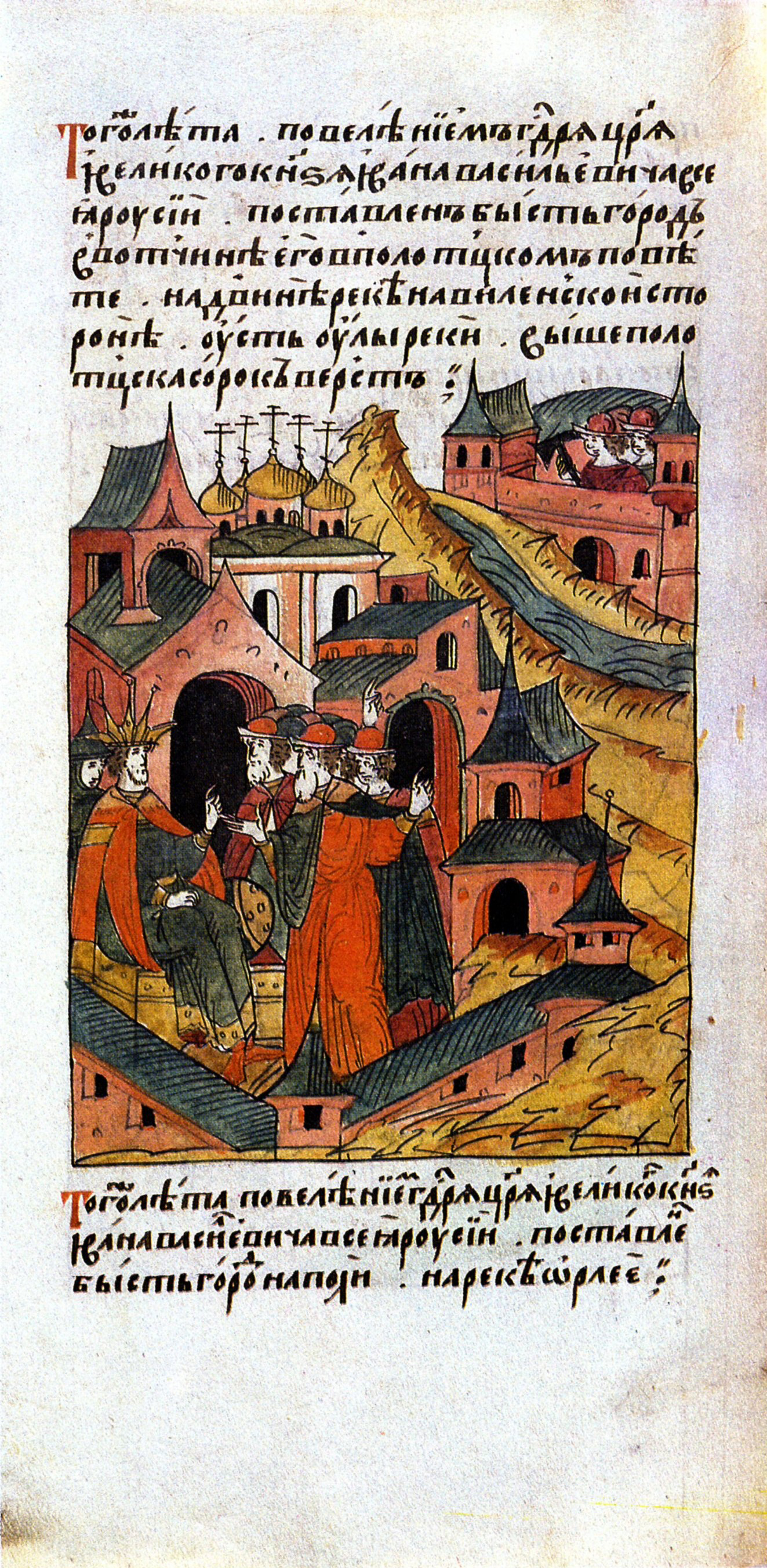 Fragment of Nikon Chronicle about founding a fortress on the bank of the river Orel (Oryol). XVI century